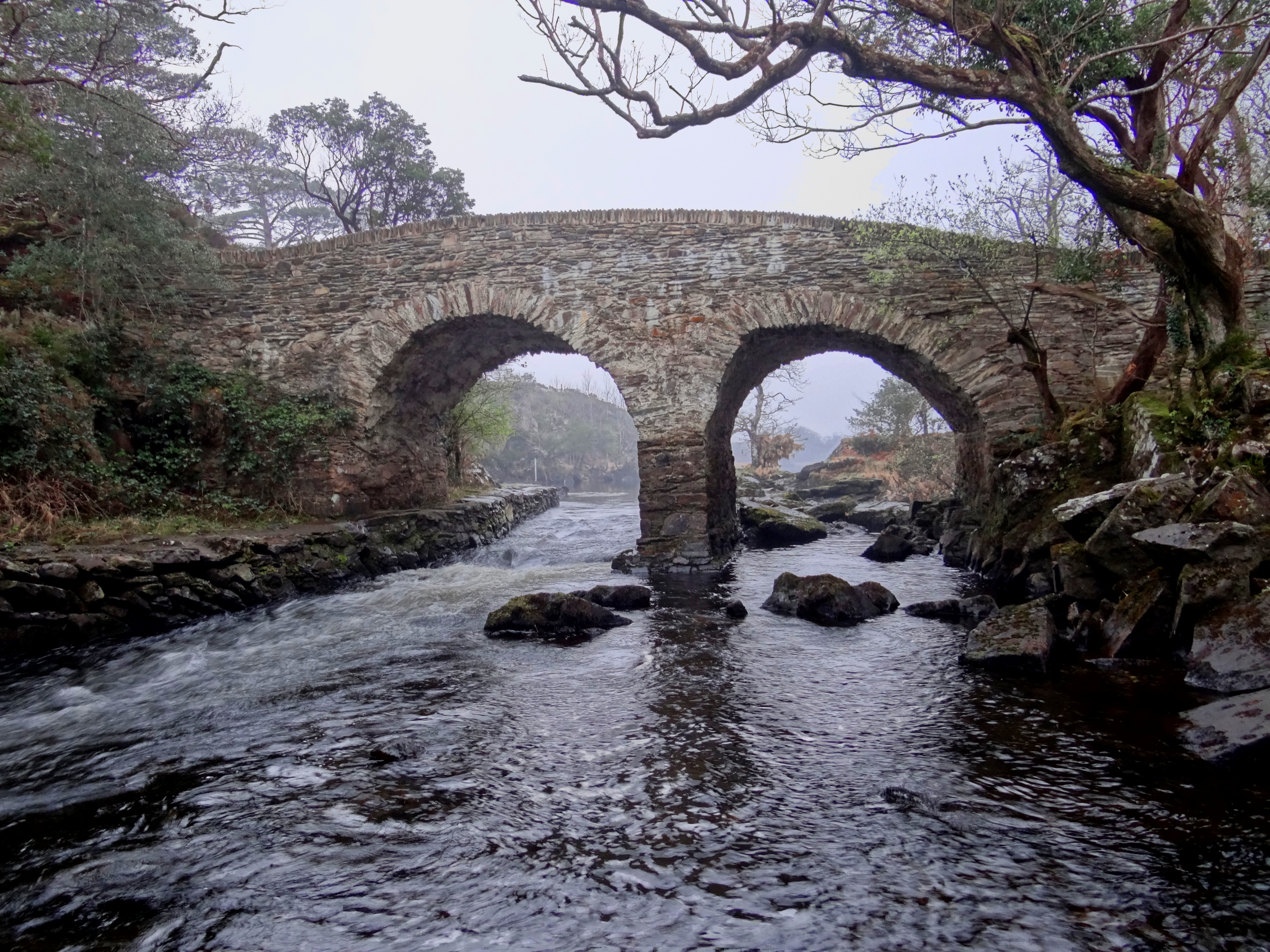 Old Weir Bridge in Killarney National Park is no longer in use, but better-looking than ever before.